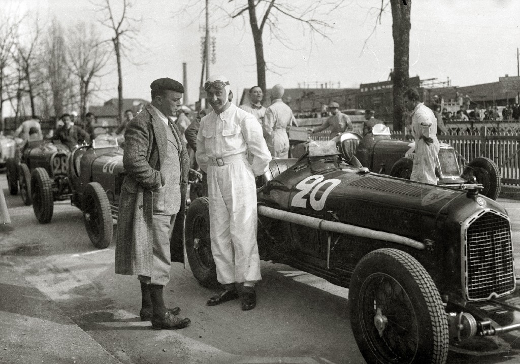 René Dreyfus (white racing suit) next to the Alfa Romeo Tipo B (or P3, or maybe they are the same) at Grand Prix de pau on 24 February 1935.File:Grand_Prix_de_Pau_(15_de_20)_-_Fondo_Marín-Kutxa_Fototeka.jpg